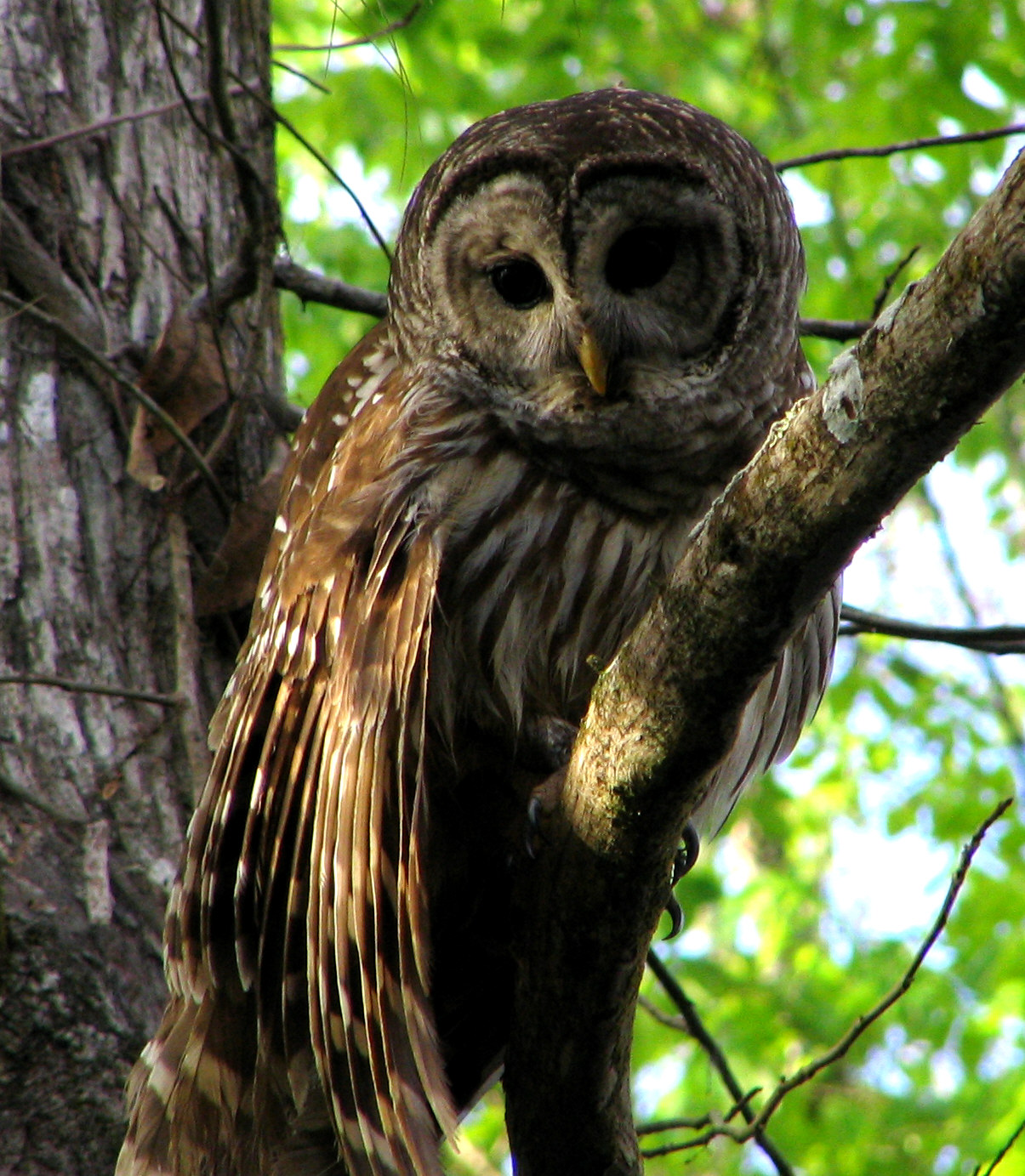 Barred Owl on the Hontoon Dead River, near Blue Spring State Park. Taken by User:Mwanner, 13 January, 2007.